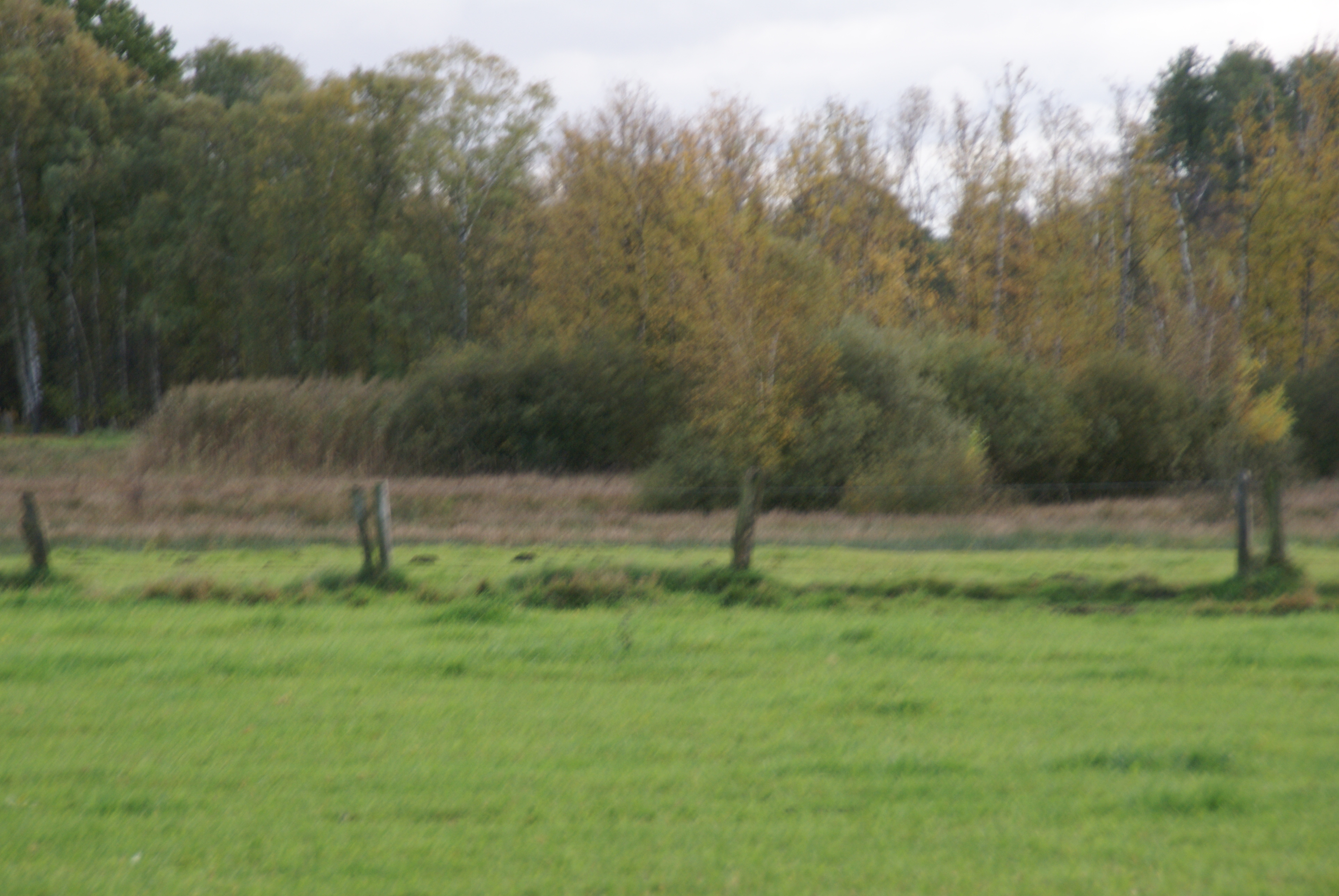 Hamburg (Hummelsbüttel), Germany: The Ohlkuhlenmoor, spring of the Susebek